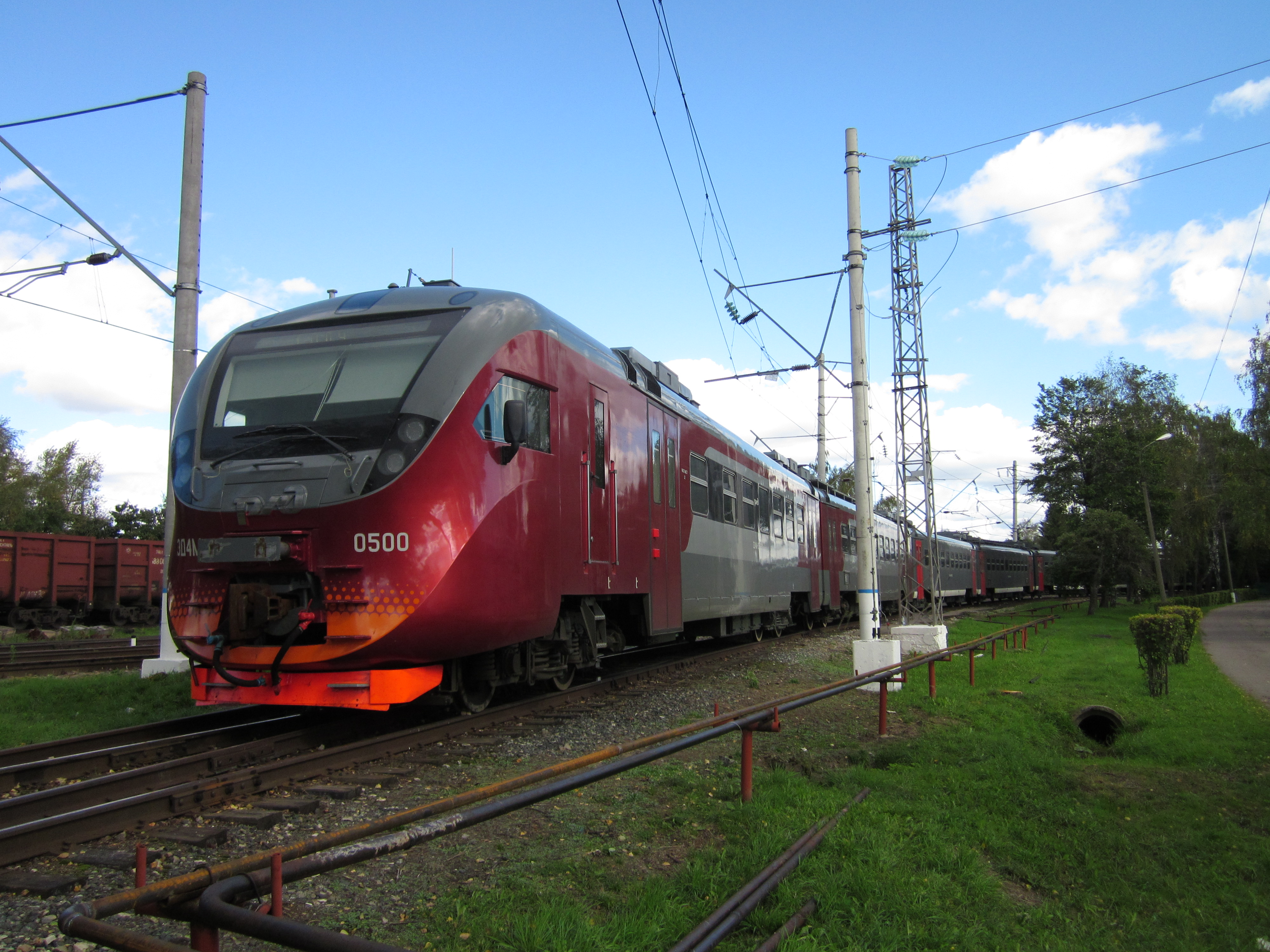 Electric multiple unit ED4M-0500 at Sherbinka test ring.